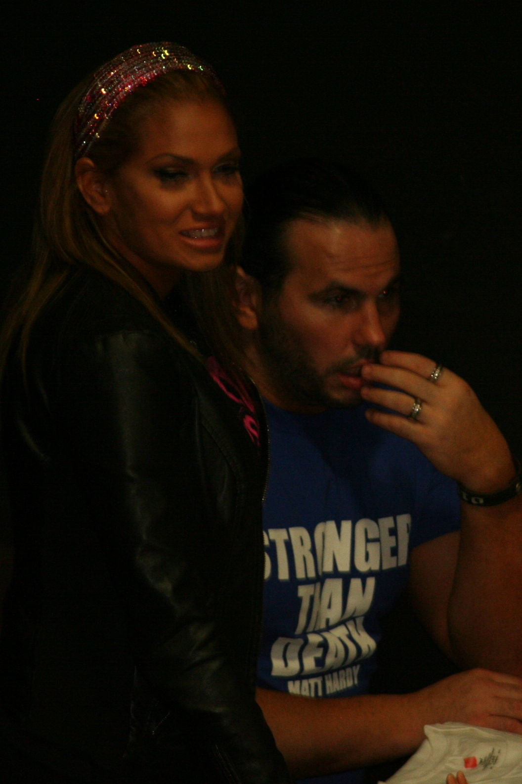 Reby Sky and Matt Hardy (right) in February 2014 at a PWX show. Cropped from original.